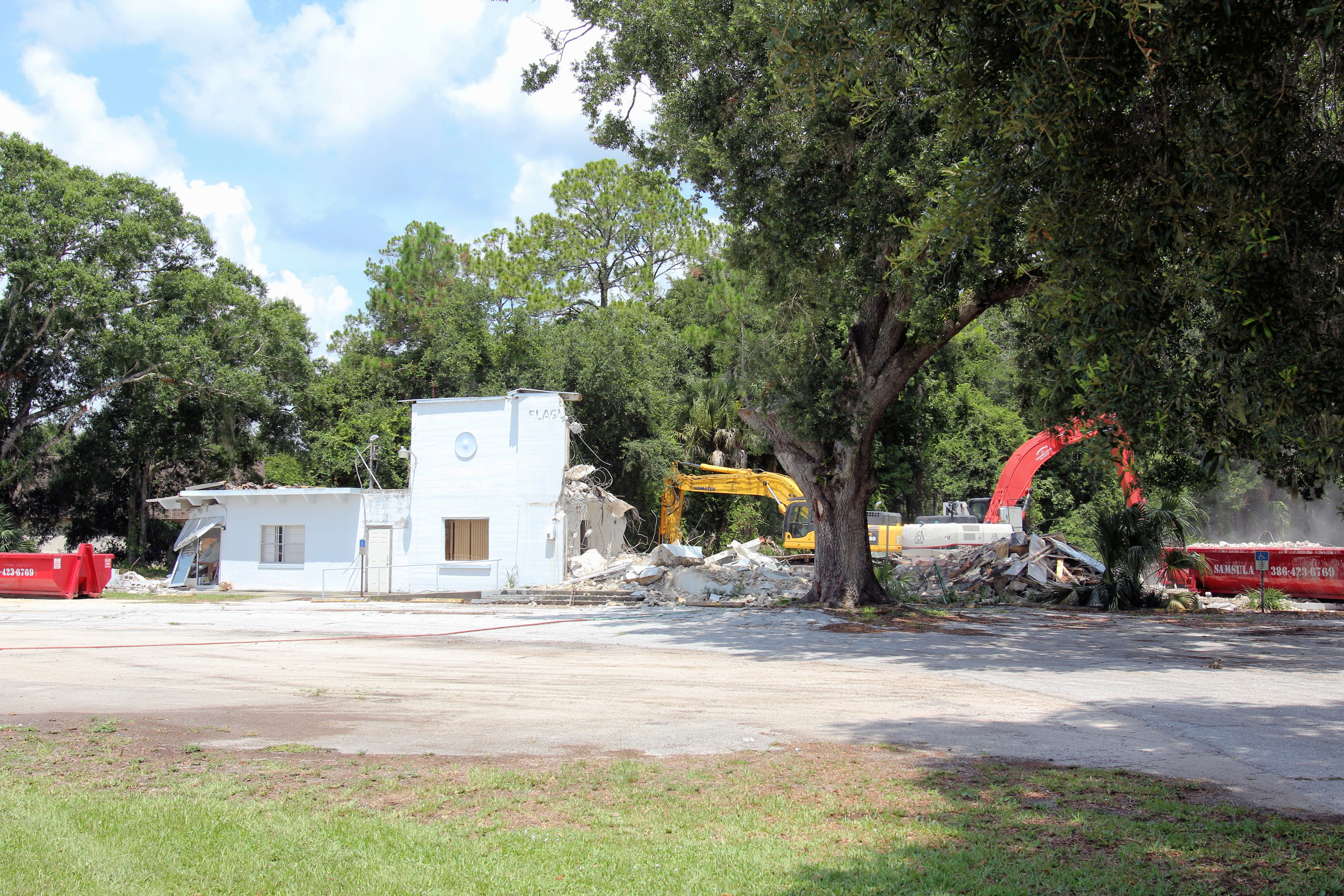 The last standing portion of the WPA-Built Flagler County Jail. This picture of its demolition was shot on July 8, 2019.